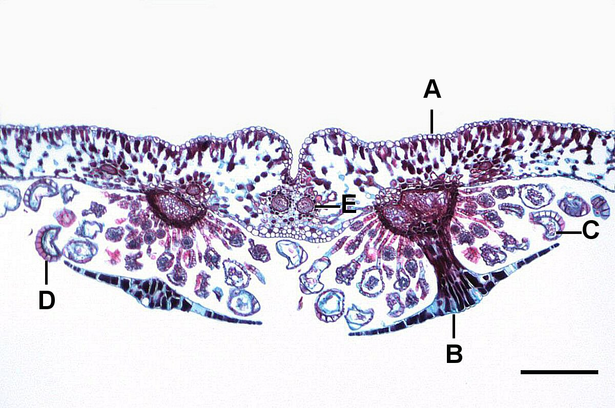 Photomicrograph of a Pterophyte indusium. A-Epidermis, B-Indusium, C-Spore, D-Annulus, E-Vascular bundle. Scale=0.625mm.